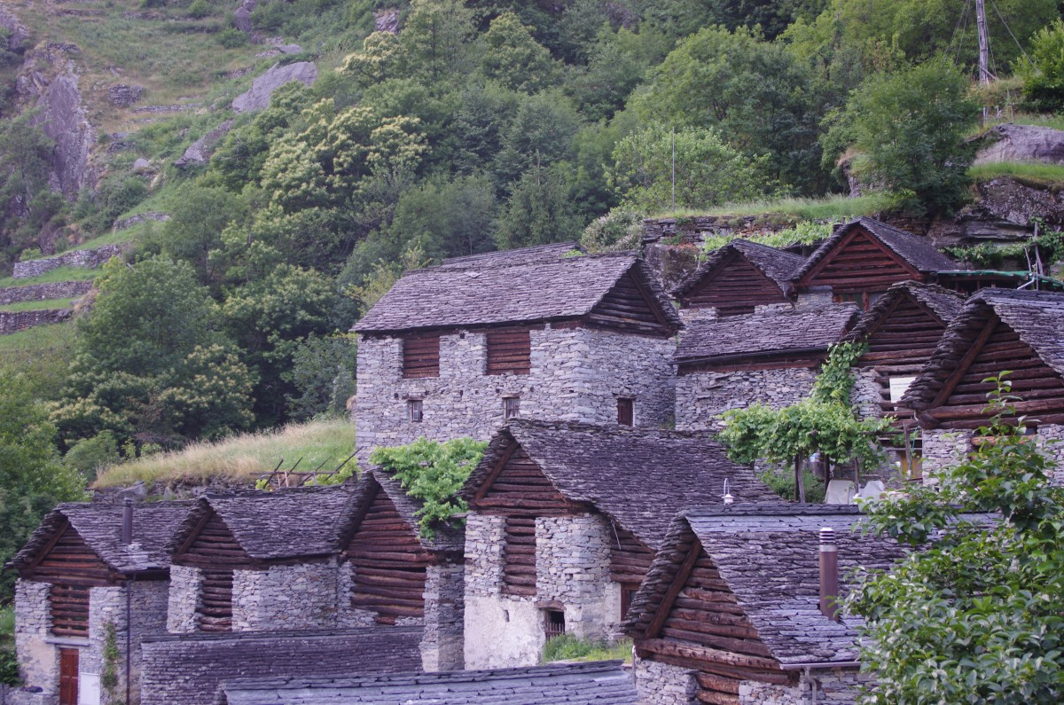 The town of Brontallo